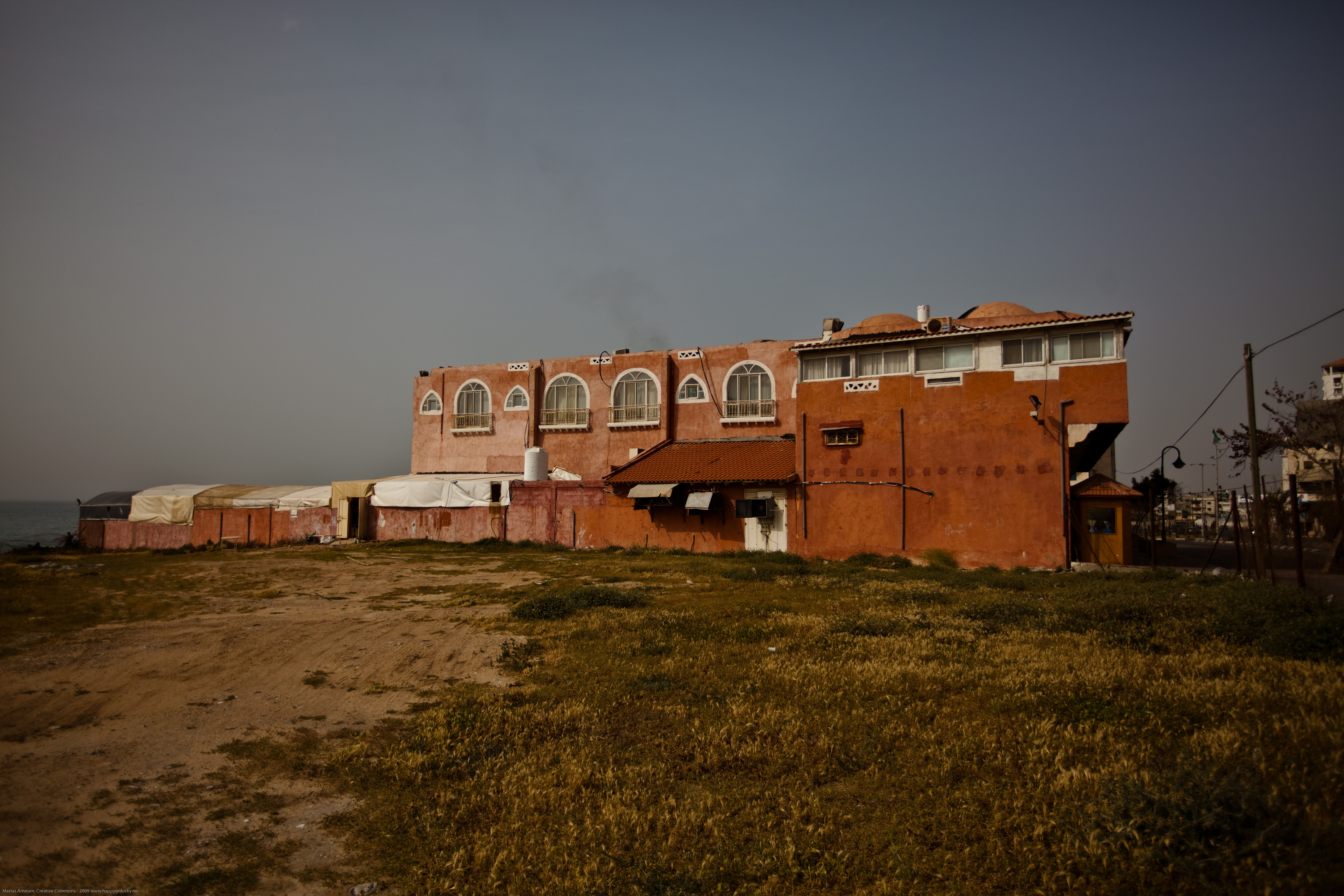 [1]Gaza 2009 Project by Marius Arnesen is licensed under a Creative Commons Attribution-Share Alike 3.0 Norway License.